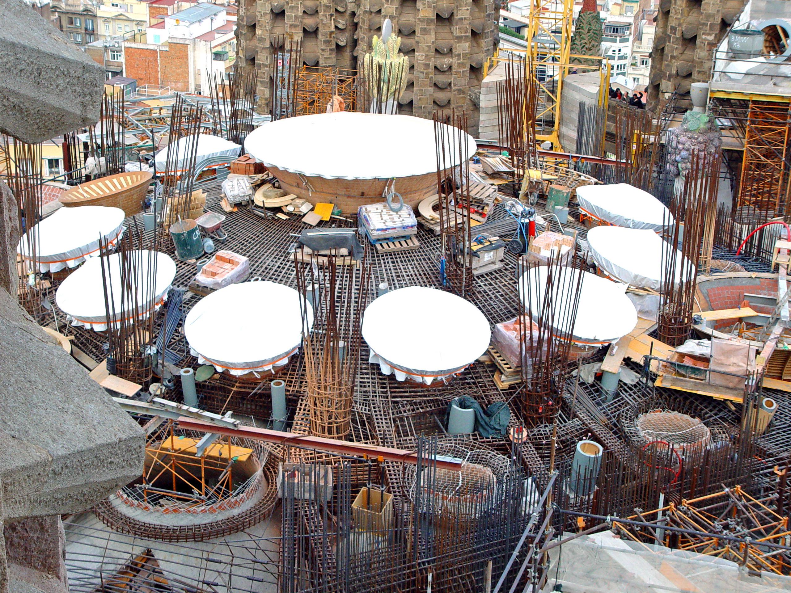 Rebars of Sagrada Familia roof in construction Note rust and corrosion of rebar and different materials used for the rebar in different areas